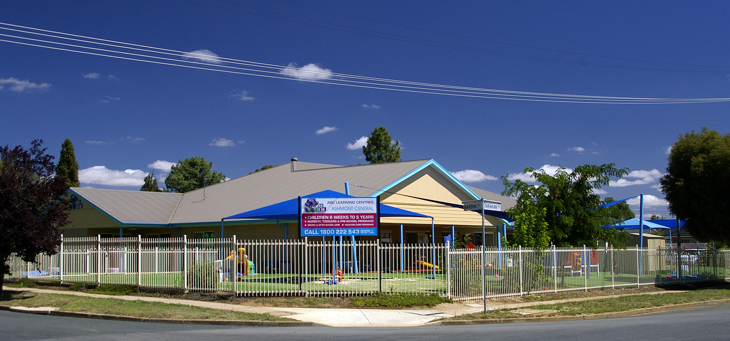 Ashmont Central ABC Learning Centre.